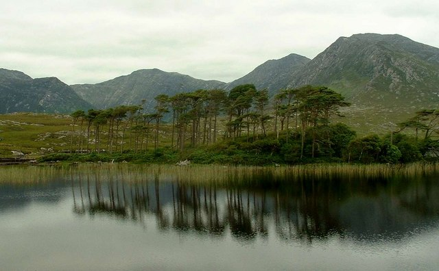 Derryclare Lough The hills are, from the left, Benbreen, Bencollaghduff, Bencorr and Derryclare.